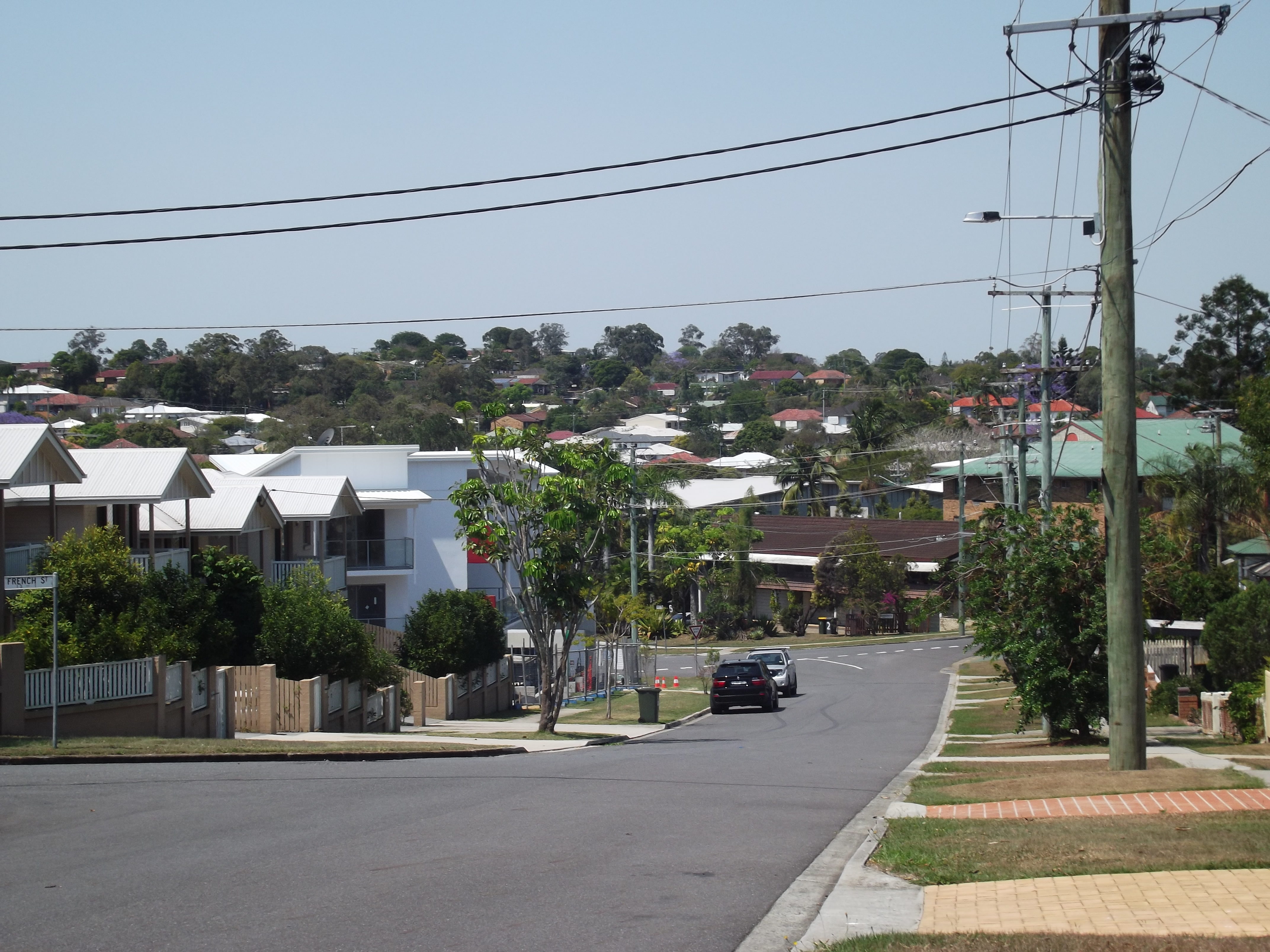 Everton Park, a northwest suburb of Brisbane.